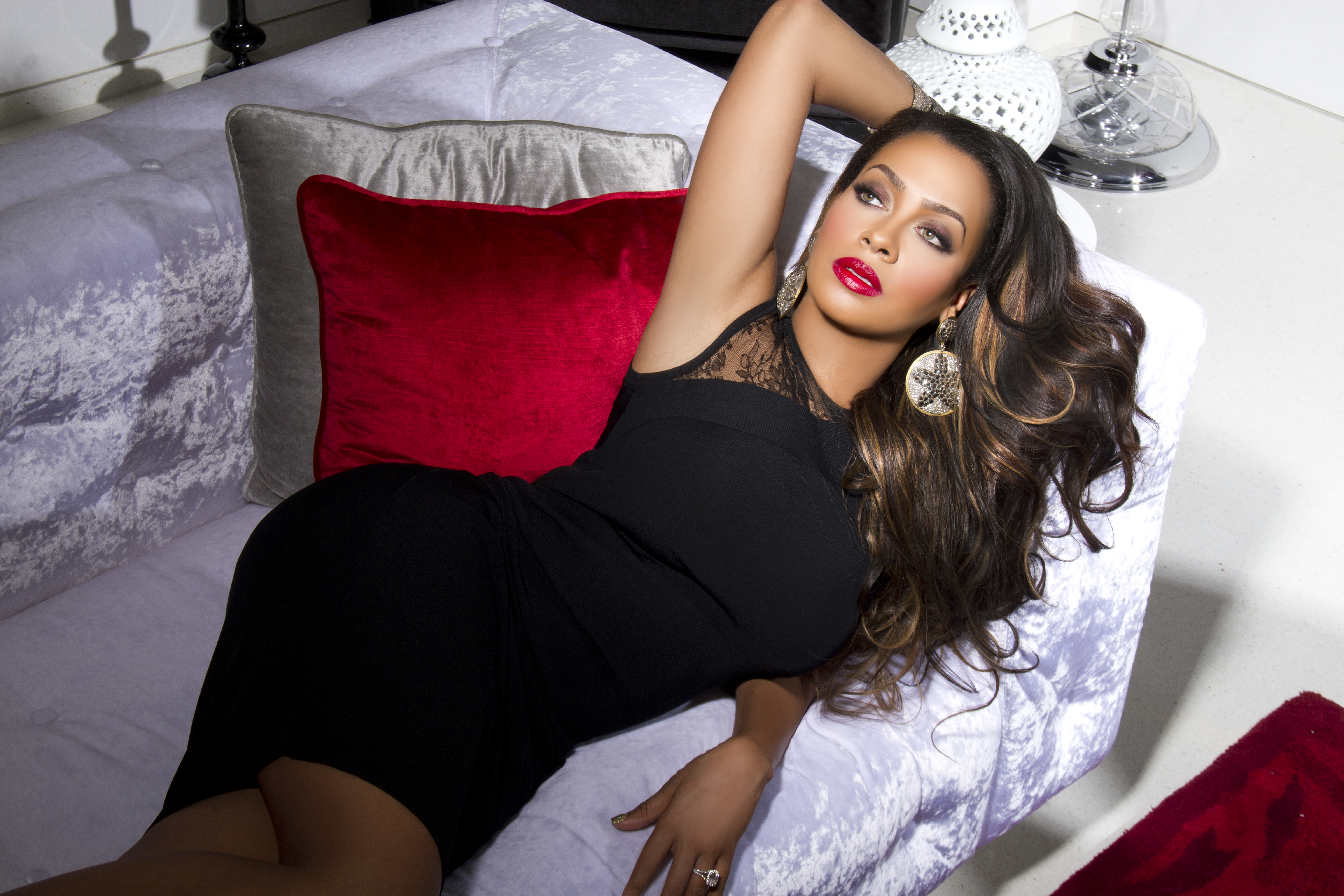 La La Anthony for Motives shot by photographer Robert Ector